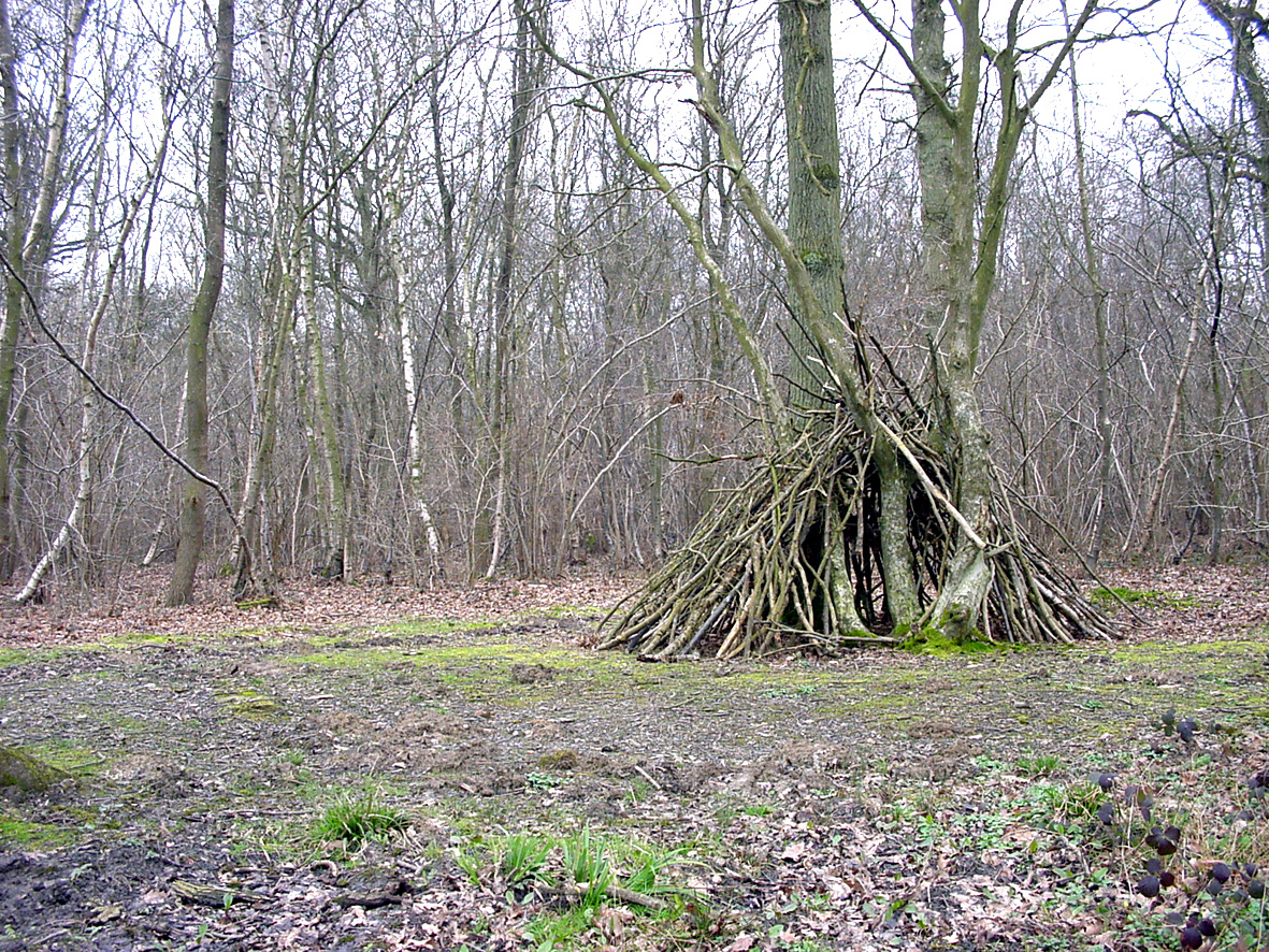 Forest of Rihoult-Clairmarais near Saint-Omer in the north of France.